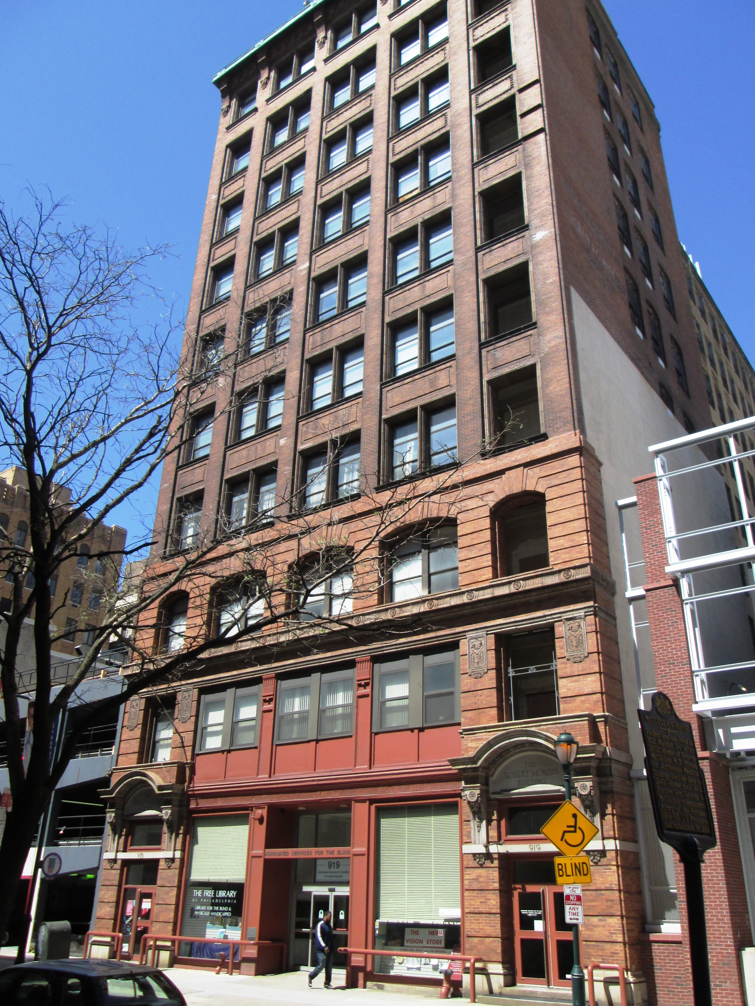 The Robert Morris Building at 919 Walnut Street between S. 9th and S. 10th Street in Center City, Philadelphia is the location of Associated Services for the Blind and Visually Impaired (ASB, founded in 1874 as Pennsylvania Working Home for Blind Men, which merged in 1983 with Volunteer Services for the Blind, the Information Center for the Blind and the Nevil Institute for Rehabilitation and Services; ASB has been located here since 1975) and the Regional Library for the Blind and Physically Handicapped Free Library of Philadelphia. (Sources: "Our History" on the ASB website and "Regional Libraries for the Blind and Physically Handicapped")